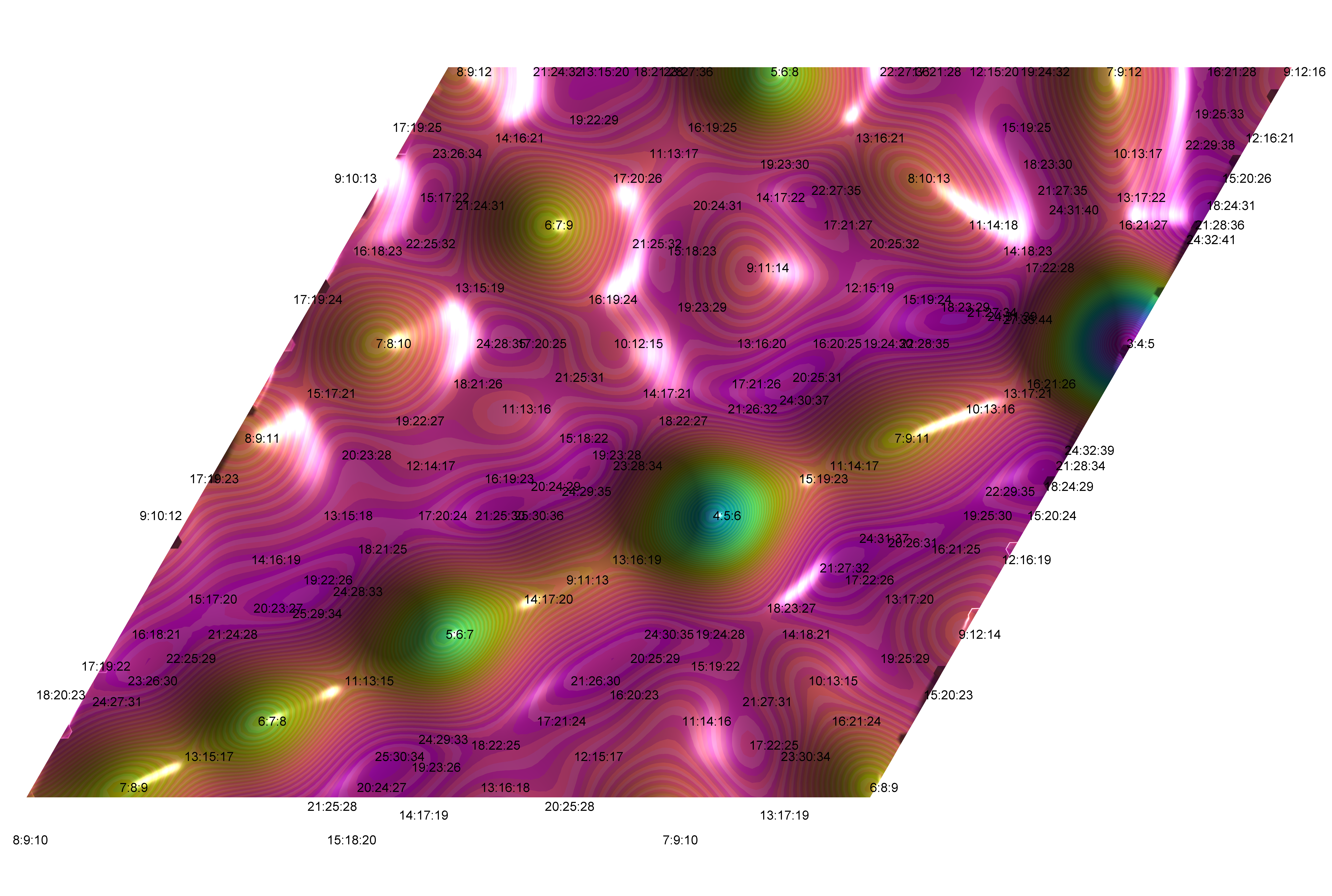 Triadic harmonic entropy for triads with lower interval and upper interval each ranging from 200 (augmented minor third: E) to 500 (augmented major third: E) cents. Lower interval plotted horizontally, upper interval diagonally and to the right, graph shows most consonant triads as the highest points. Harmonic entropy theory is intended to model one of the components of dissonance as a measure of the uncertainty of the virtual pitch ("missing fundamental") evoked by a set of two or more pitches. So for instance, in this plot, notice how the harmonic major triad 4:5:6 is a clear prominent peak. The usual 5 limit harmonic minor triad 10:12:15 (i.e. 1/4 : 1/5 : 1/6) is less prominent, as expected; indeed though it looks like a hill from most directions; it turns out to be a small hillock on the slopes of the 6:7:9 mountain (septimal minor triad). Formula by Paul Erlich; calculations by Steve Martin; graphic by Paul Erlich For details of how harmonic entropy is calculated see Harmonic Entropy from Bill Sethares' book Tuning Timbre Spectrum Scale and described in more detail here and here For example, compare 4:5:6, 6:7:9, and 10:12:15.